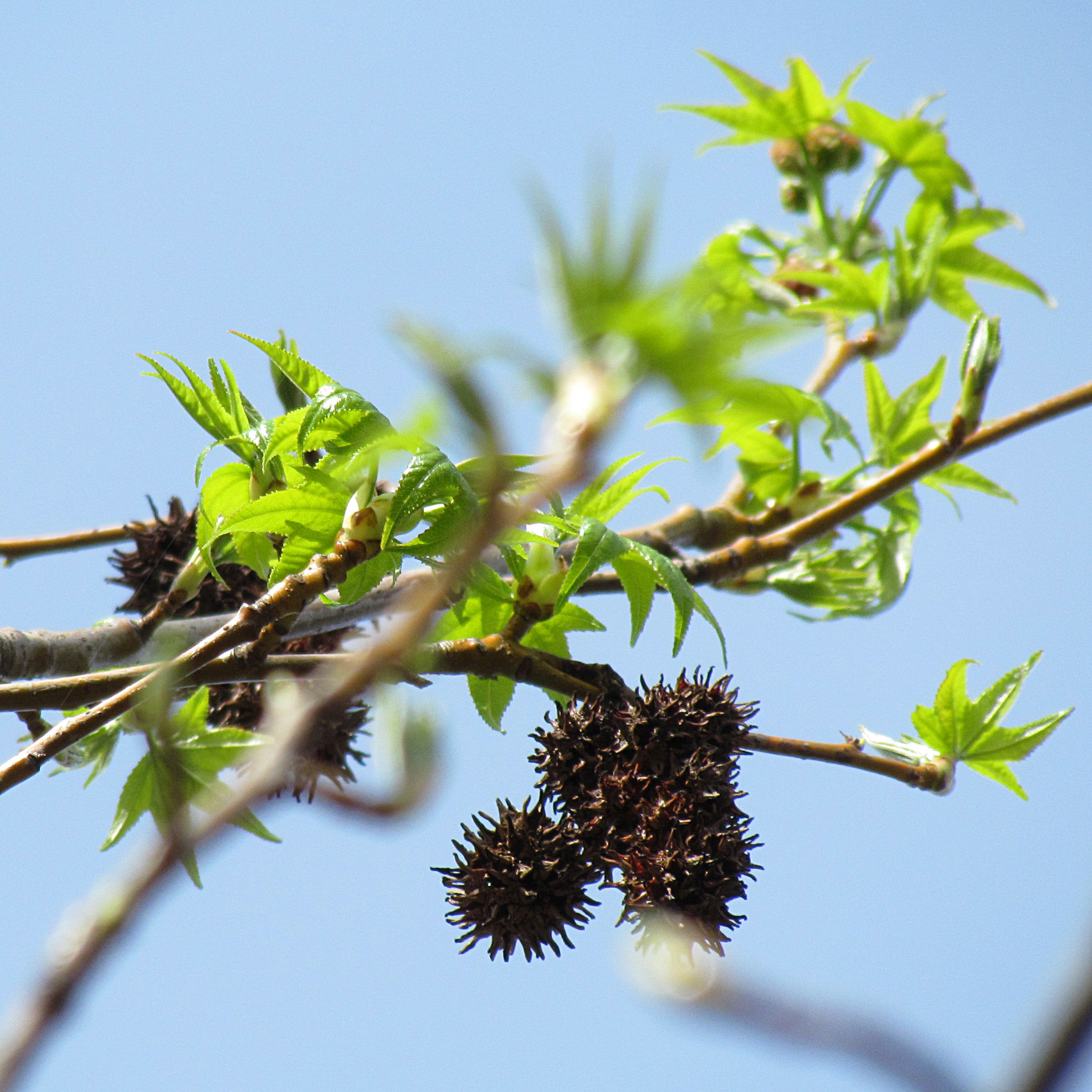 Liquidambar styraciflua fruits in spring